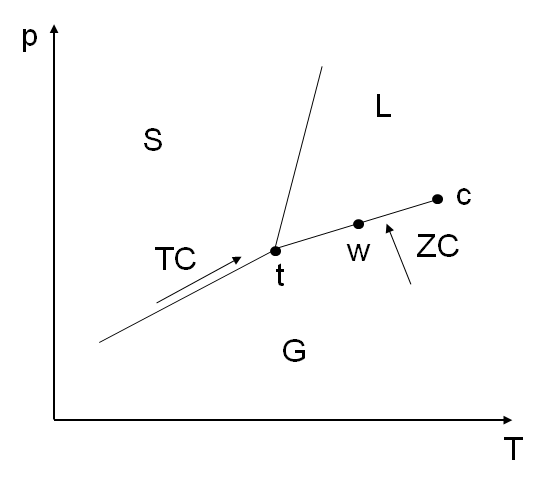 Schematic representation of total wetting process and surface meltin process. Key: p - pressure T - tempreture S - solid state L - liquid state G - gaseous state t - triple point w - wetting point c - critical point ZC - total wetting, system's state movement vector TP - surface melting, system's state movement vector